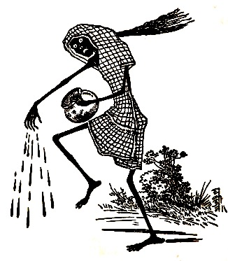 Depiction of a Shakchunni spreading cow dung mixed water